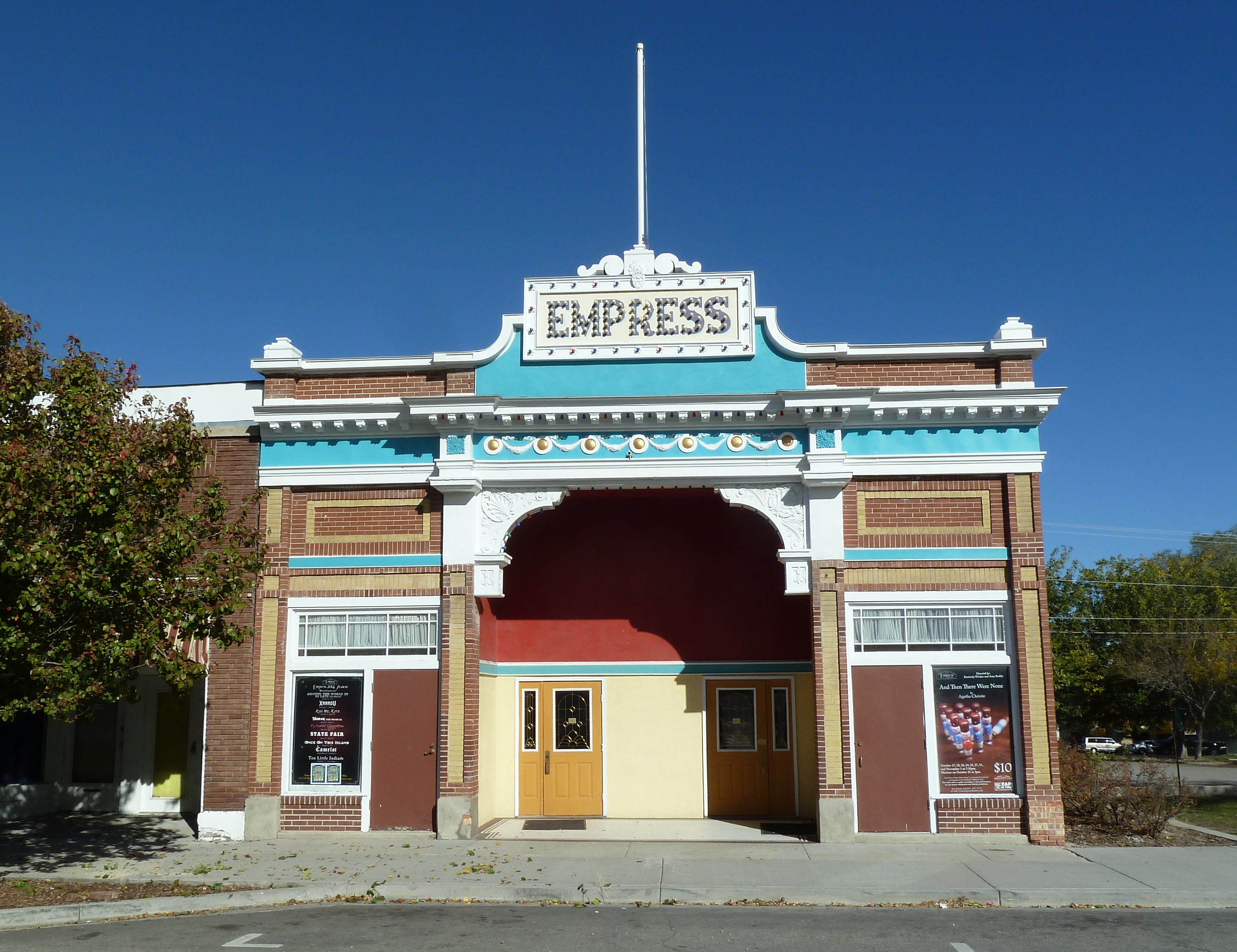 Empress Theatre, 9104 W. 2700 South (Main Street) Magna